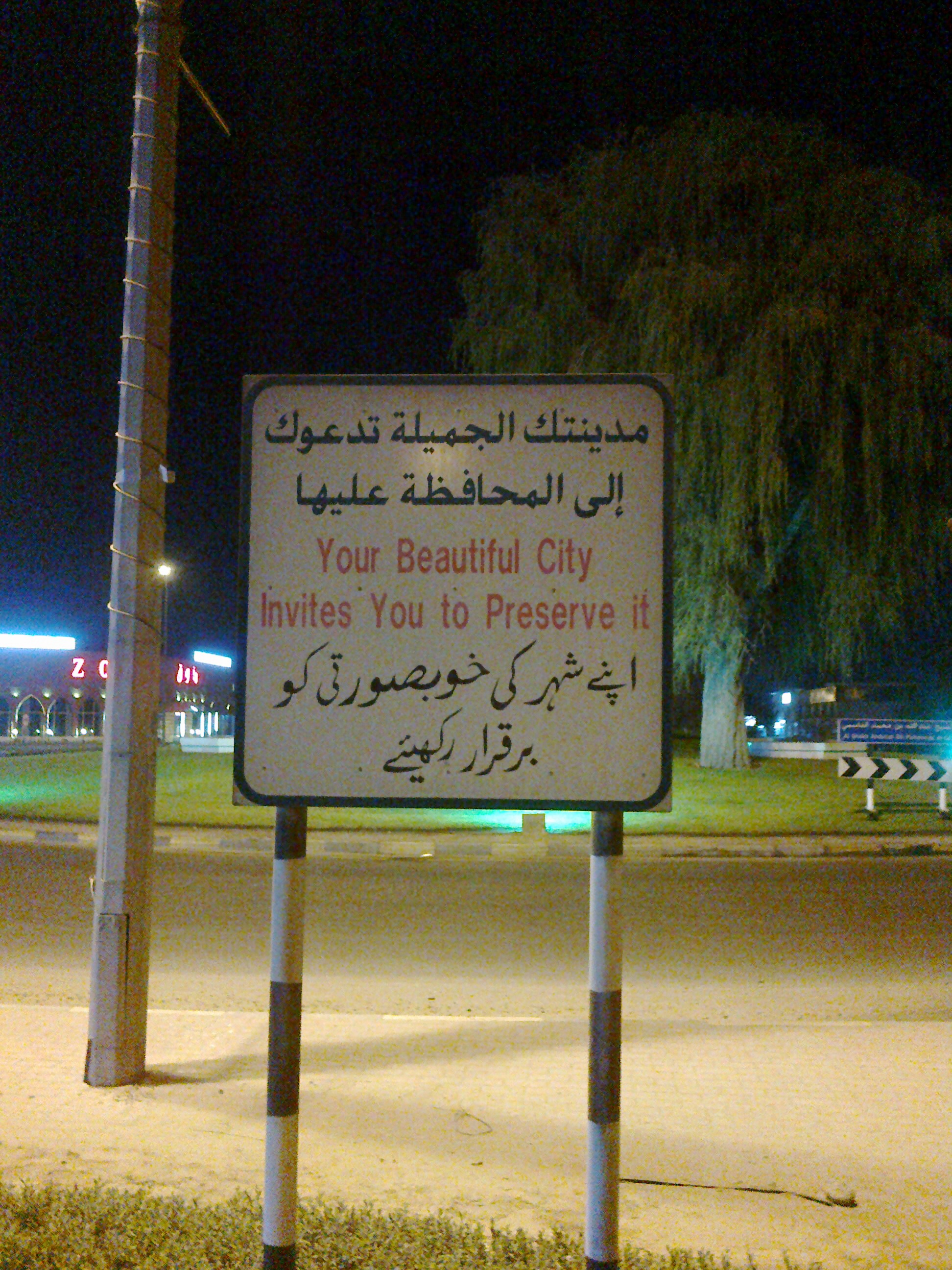 A trilingual (Arabic, English, Urdu) signboard, on the northern side of Sheikh Saqr Bin Muhammed Al Qassimi Road [E 18], at the junction of Sheikh Abdullah Bin Muhammed AlQasimi Roundabout, Ra's al Khaymah, United Arab EmiratesThe sign reads: العربیة: مدينتك الجميلة تدعوك إلى المحافظة عليها